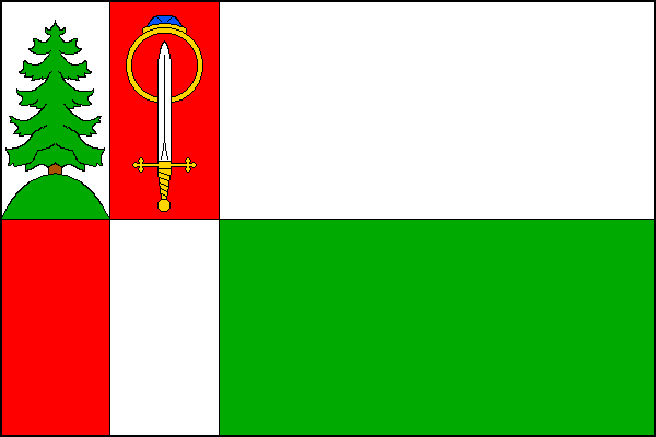 Flag of Mřičná